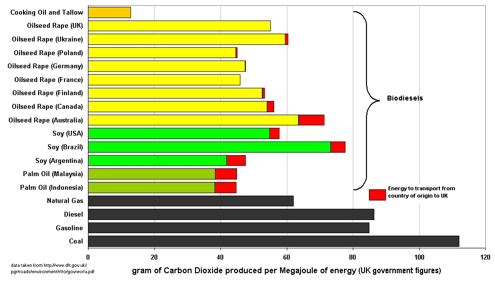 Excel Graph showing the Carbon Intensity of different Biofuels. Derived from information found in the UK crown copyright document.[1]